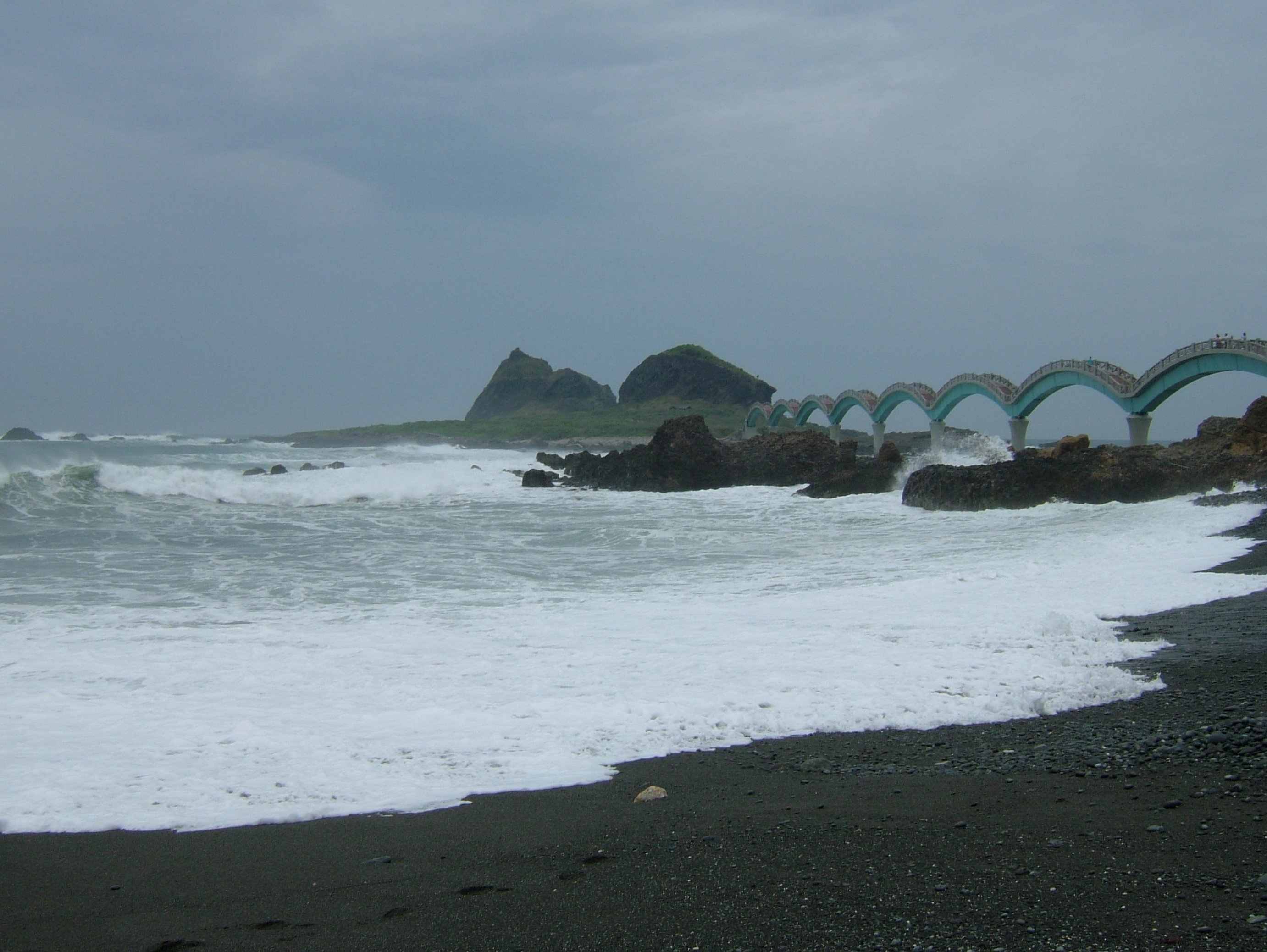 Sansiantai (before typhoon) North of Chenggong Taitung County